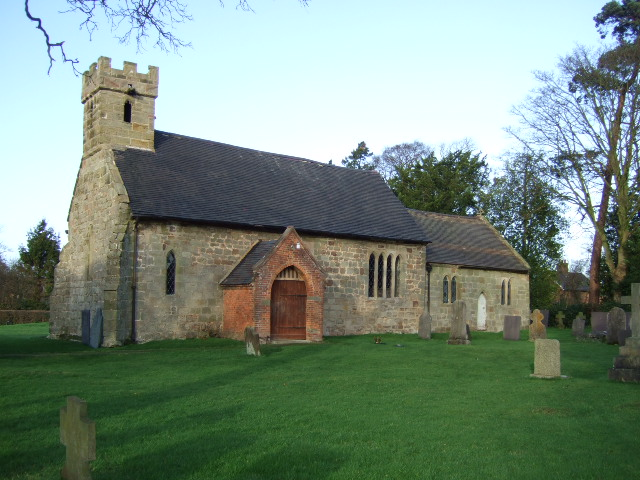 Dalbury Church The south face of Dalbury Church